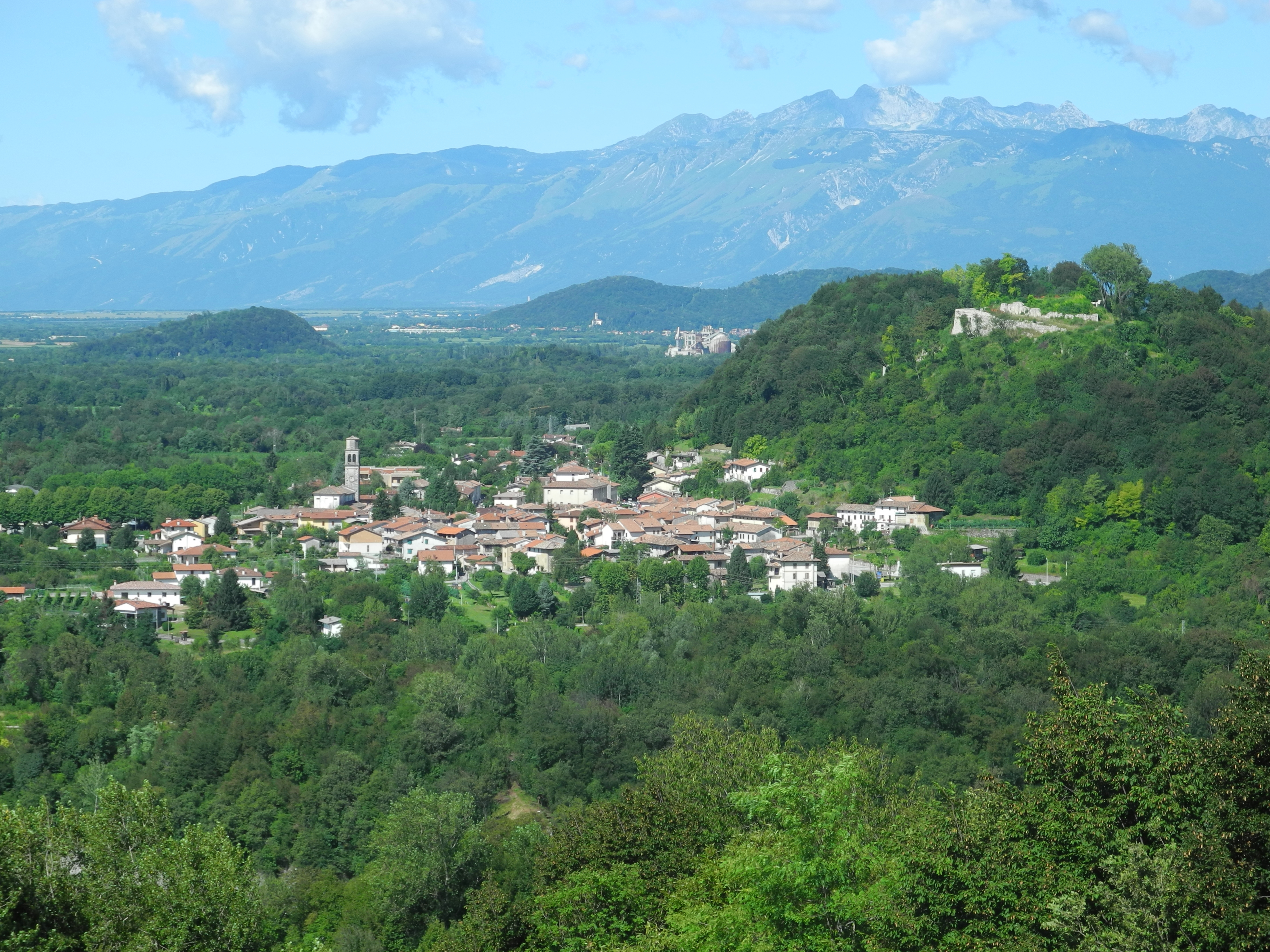 Pinzano al Tagliamento, PN - Italy